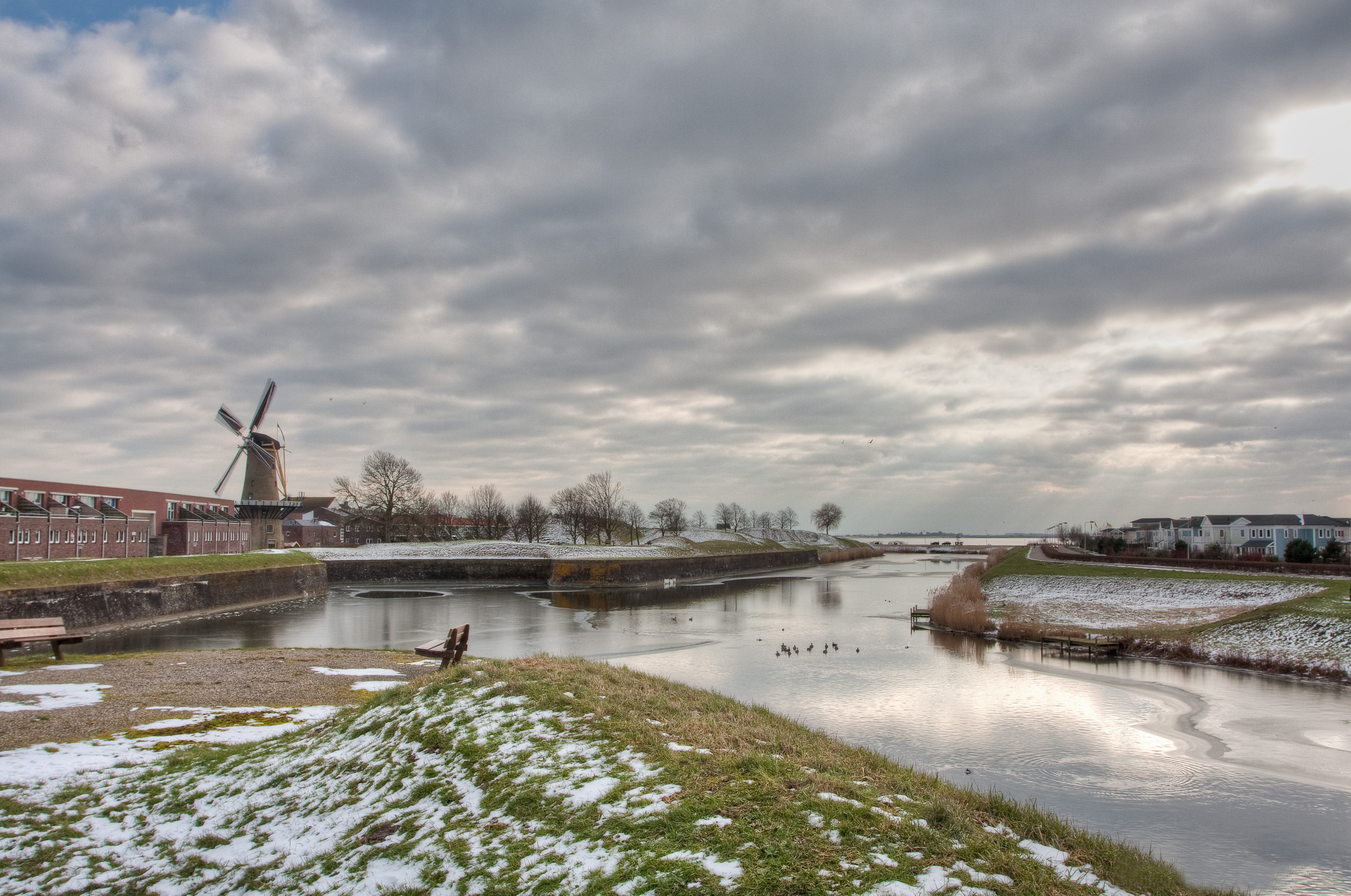 Moat - Fortification Hellevoetsluis SW